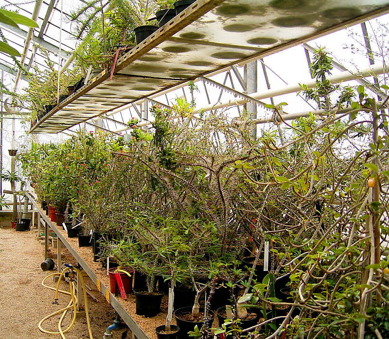 Euphorbia collection (E. milii relationship) - BG Heidelberg, Germany